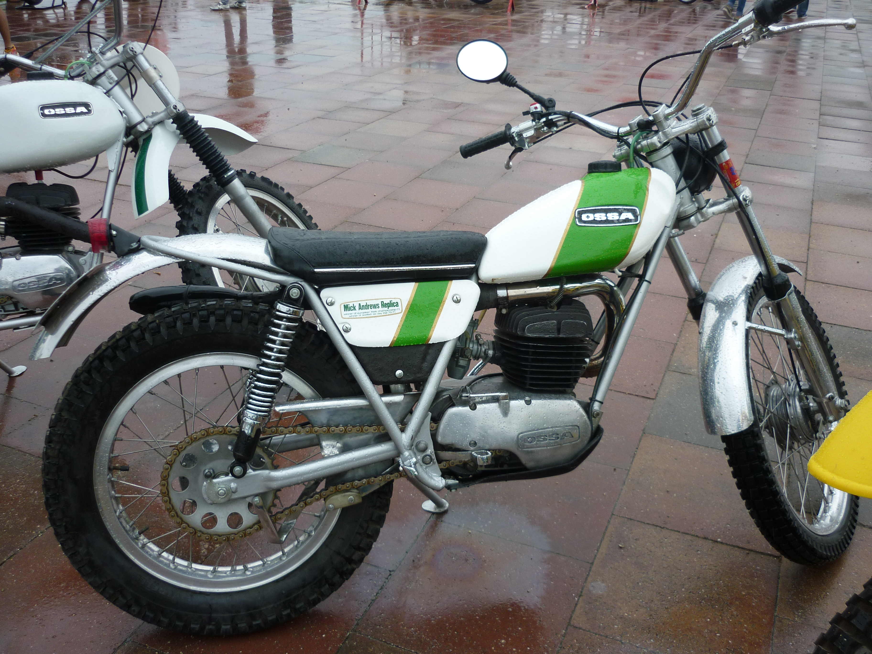 OSSA MAR ("Mick Andrews Replica") 250cc, 1972.